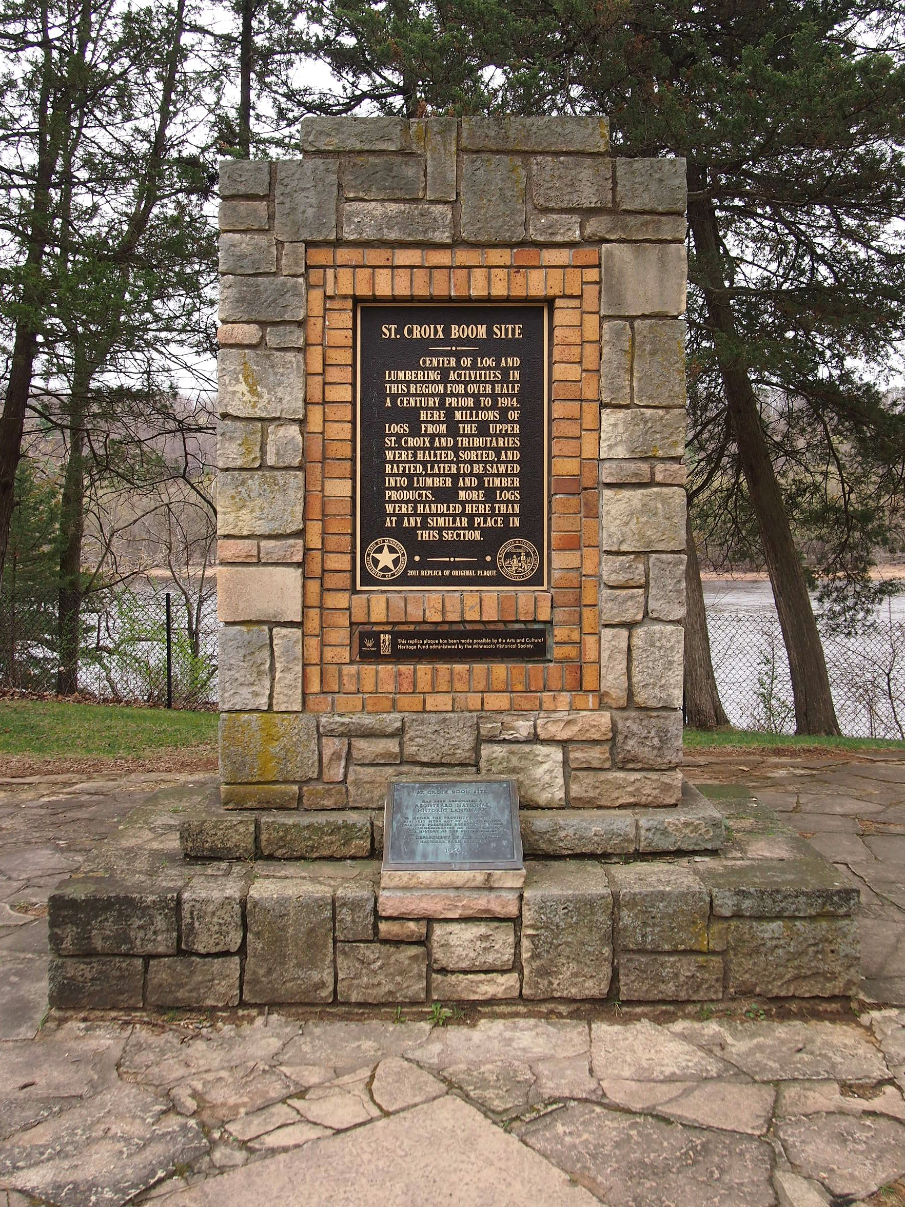 Historical marker built by the National Youth Administration at the St. Croix Boom Site, Stillwater Township, Minnesota, USA. Viewed from the northwest.